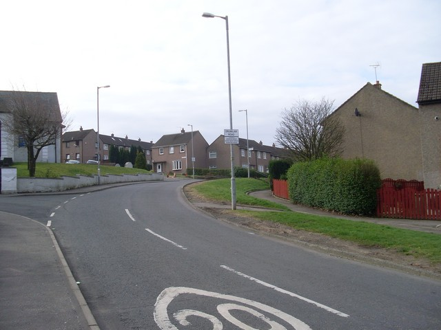 Drumilaw Road Leads to a residential estate.